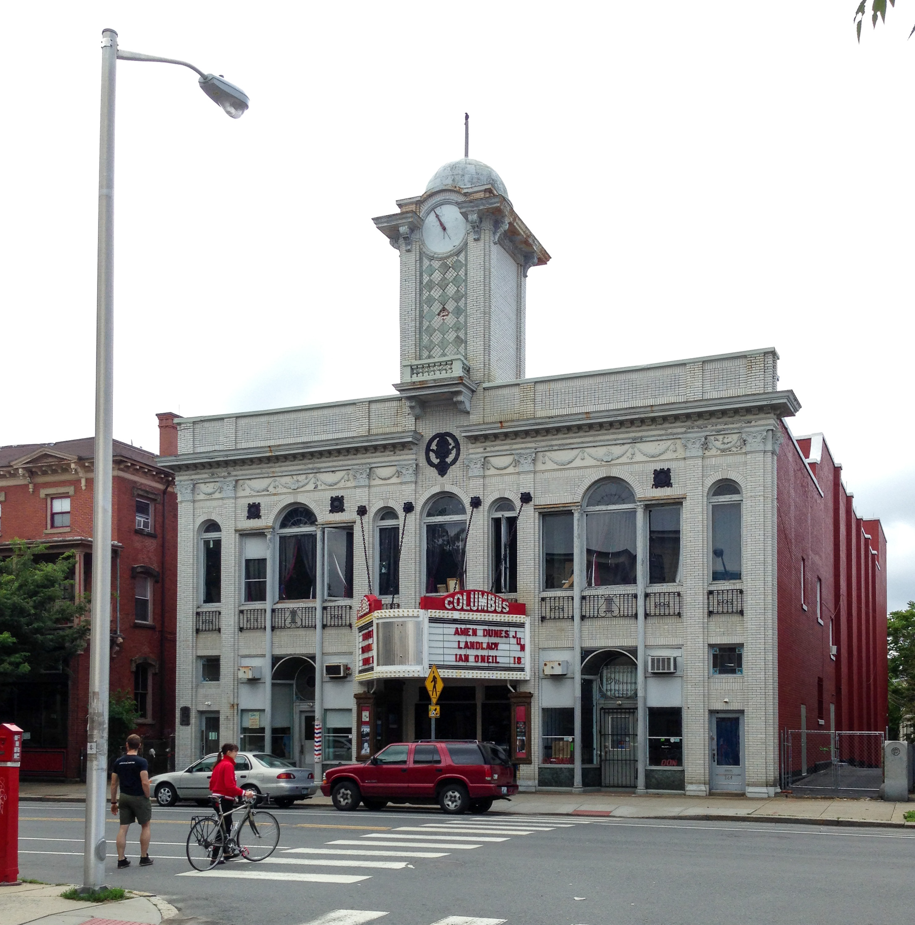 Columbus Theatre, 264-270 Broadway, Providence, RI. Built ca 1900 as the Uptown Theatre. Part of the Broadway–Armory Historic District